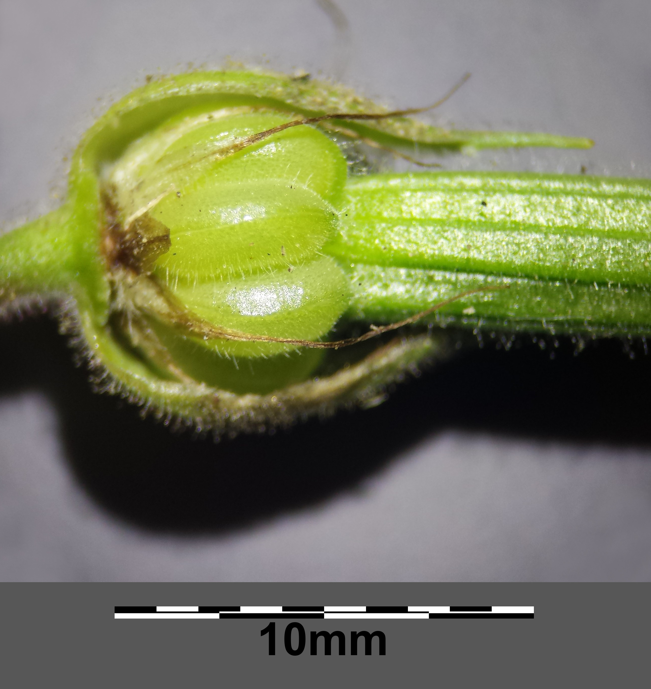 Hirsute mericarps (front sepals removed) Taxonym: Geranium pratense ss Fischer et al. EfÖLS 2008 ISBN 978-3-85474-187-9 Location: near Niederhollabrunn, district Korneuburg, Lower Austria - ca. 250 m a.s.l. Habitat: wayside